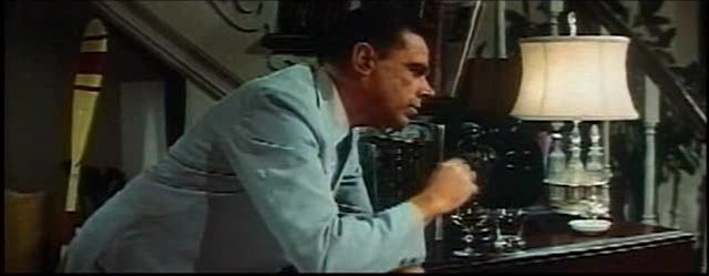 Tom Ewell leaning in the theatrical trailer of the 1955 film The Seven Year Itch directed by Billy Wilder.